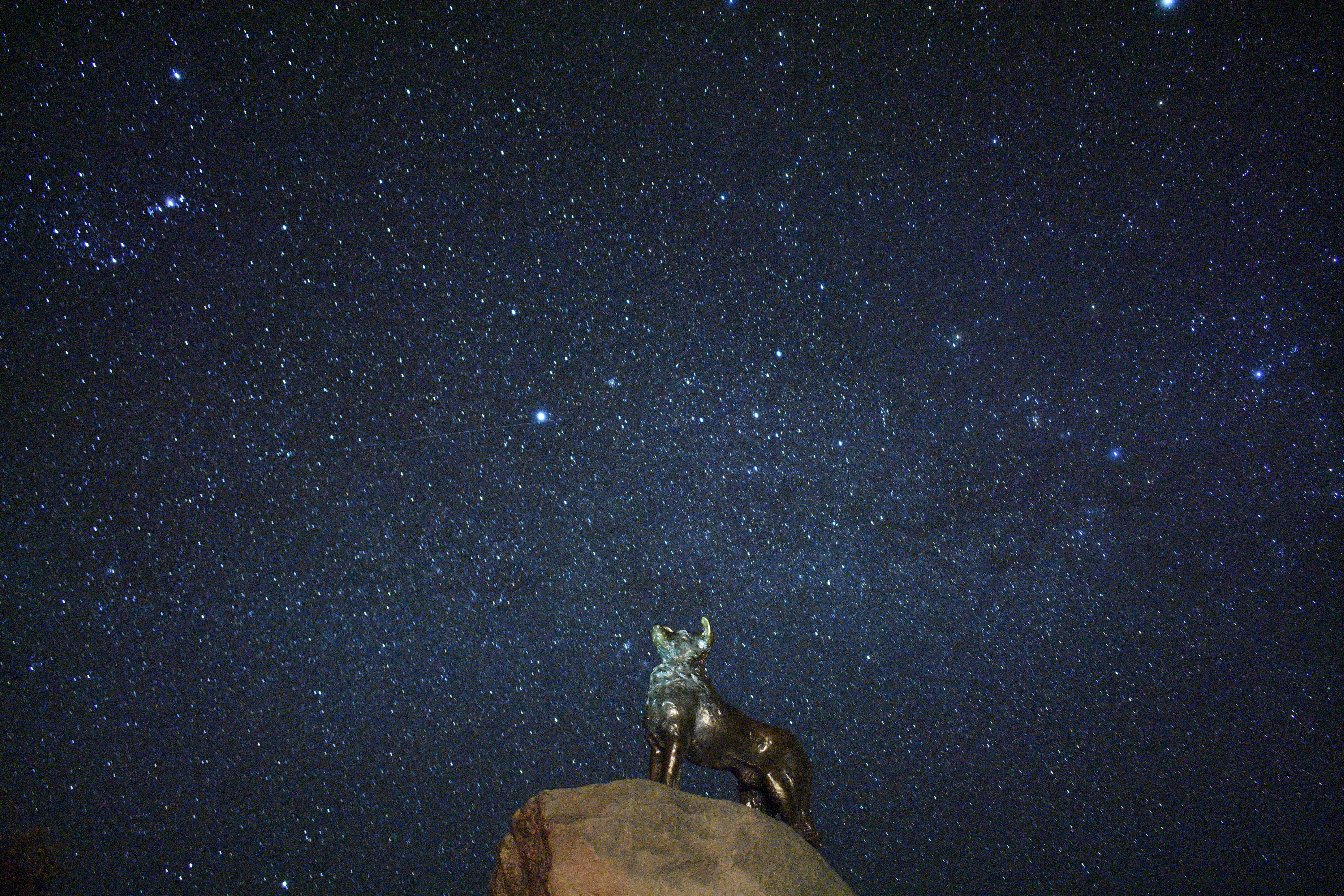 stargazing view in lake tekapo in New Zealand, south island, Mackenzie region